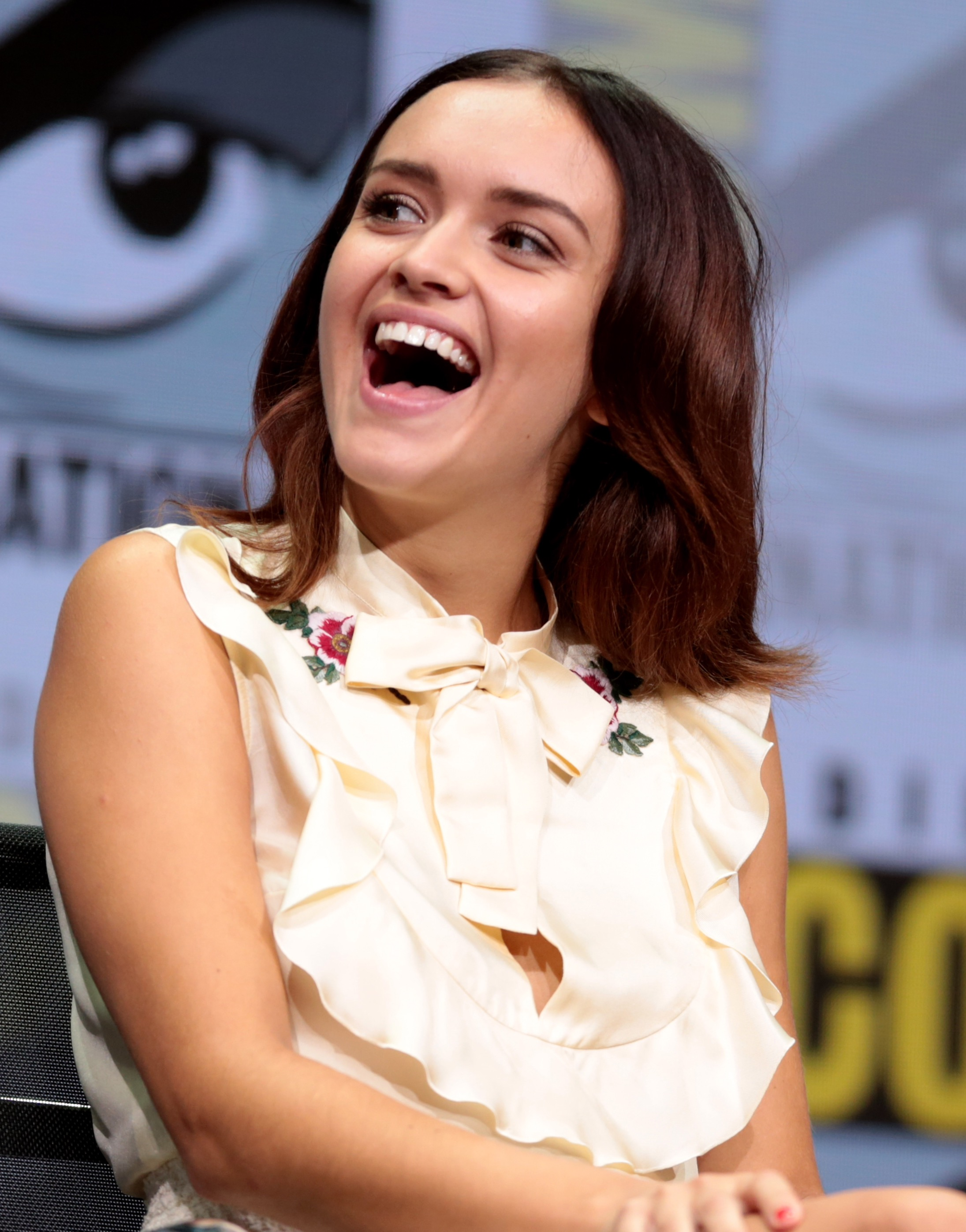 Olivia Cooke speaking at the 2017 San Diego Comic Con International, for "Ready Player One", at the San Diego Convention Center in San Diego, California.